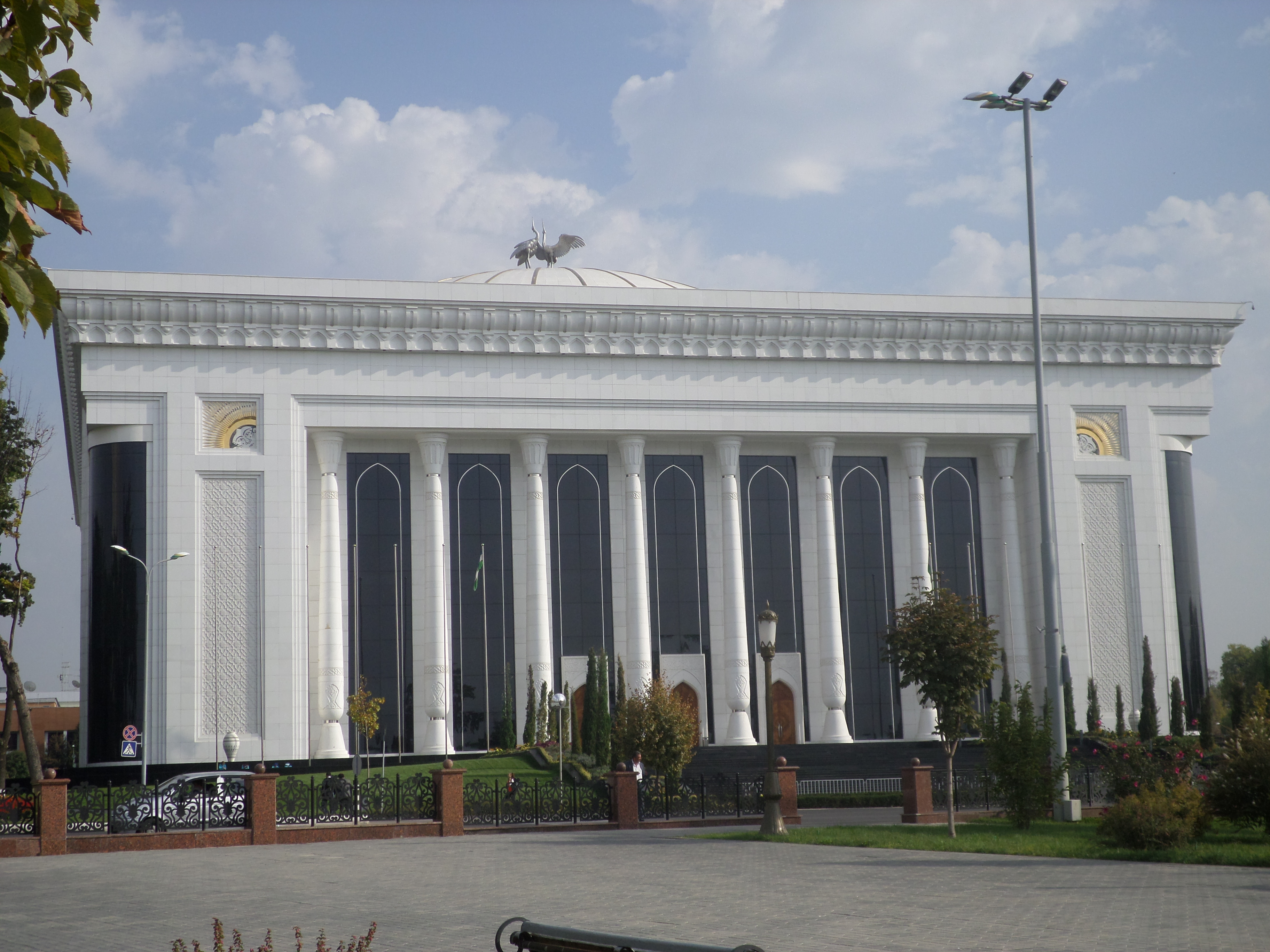 Palace of International Forums